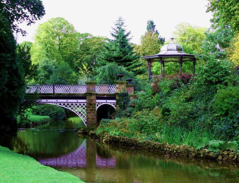 Buxton, Derbyshire Park in Autumn